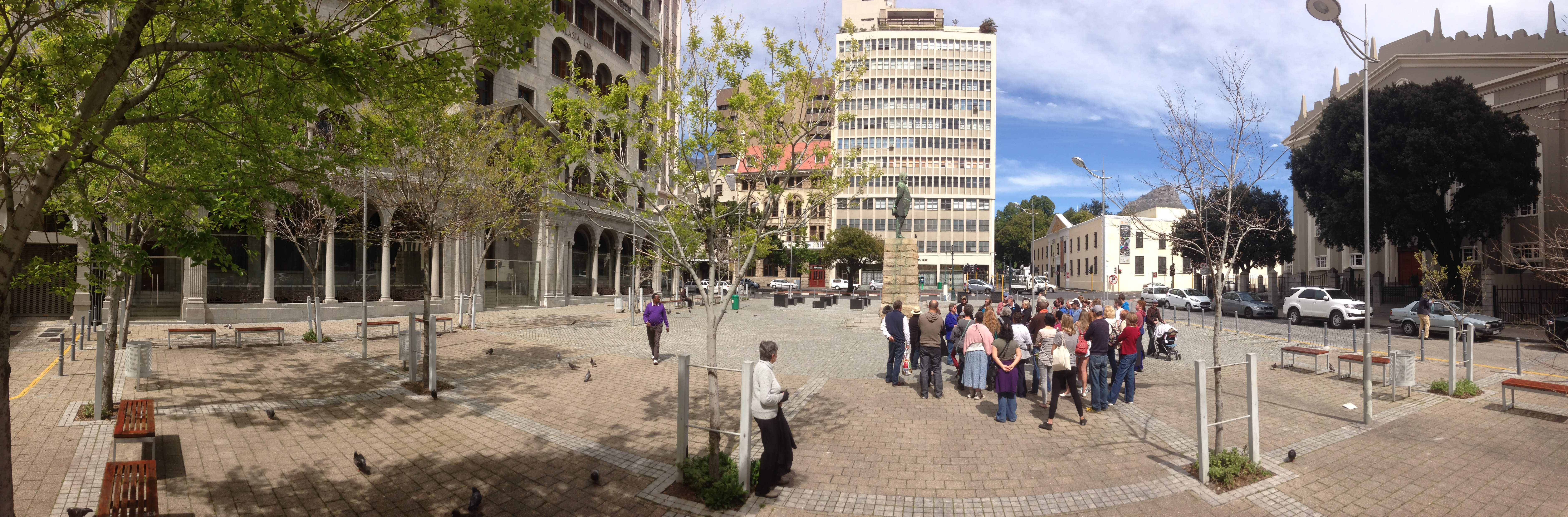 Church Square, Cape Town While he was still occupied with the building of his fort, Jan van Riebeeck started to lay out a garden between the fort and the Fresh River(see sketch Plan- p.13). As time went on, the garden was extended in the direction of the mountain and the present Type of site: Square . Historical Interest. 3. Church Square.- One of the squares round which Cape Town developed. It was the square used by churchgoers of the Groote Kerk. This media shows a South African Protected Site with SAHRA file reference 9/2/018/0140.